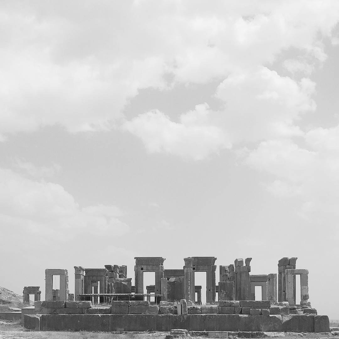 Tachara